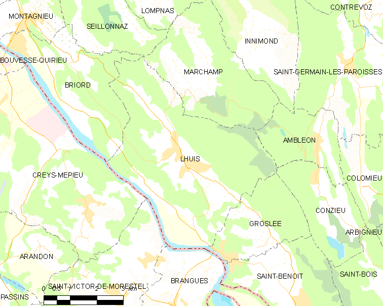 Map of French commune: Lhuis Map commune FR insee code 01216.png